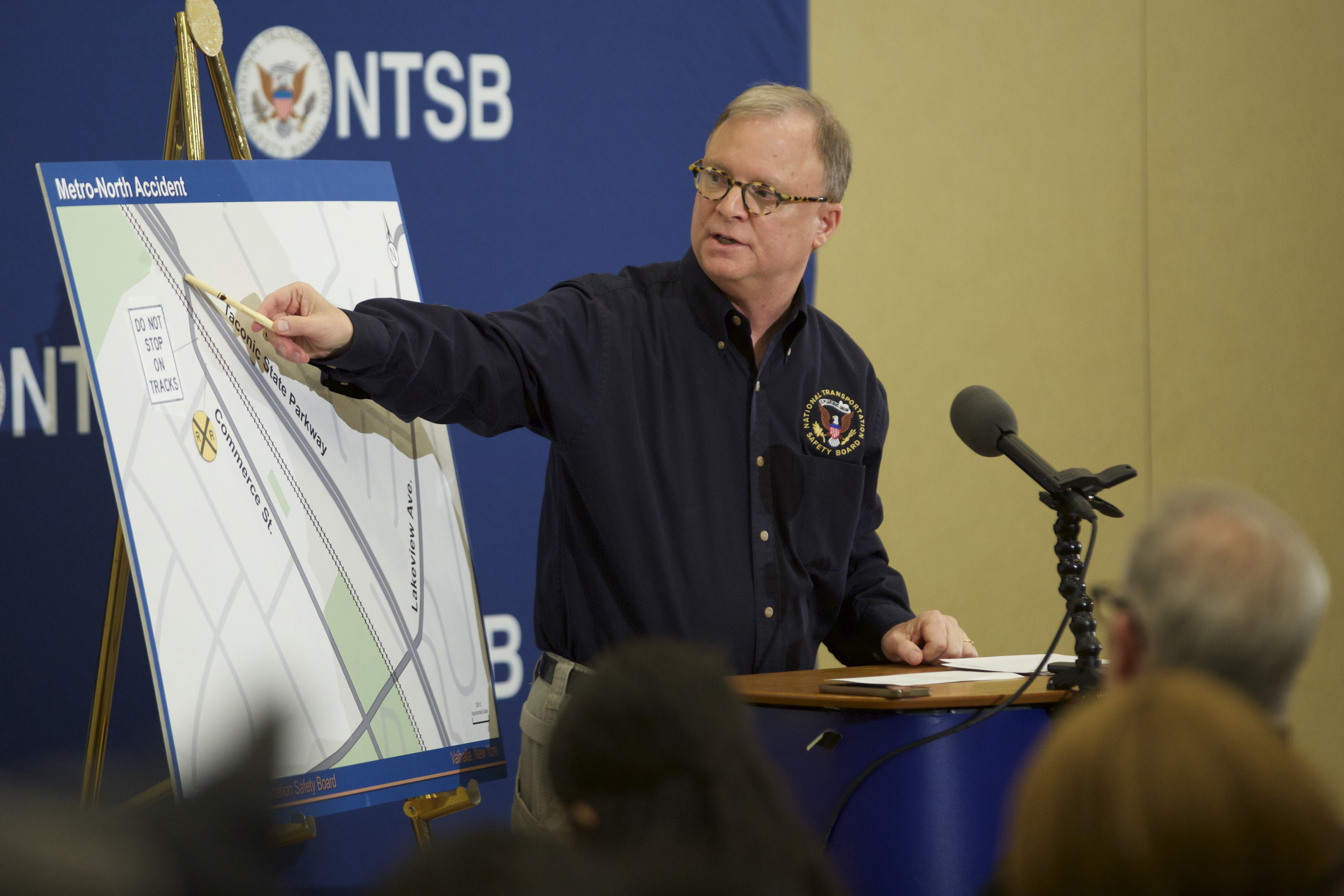 NTSB Board Member Robert Sumwalt points to the accident scene of the Metro North train collision in Valhalla, N.Y.